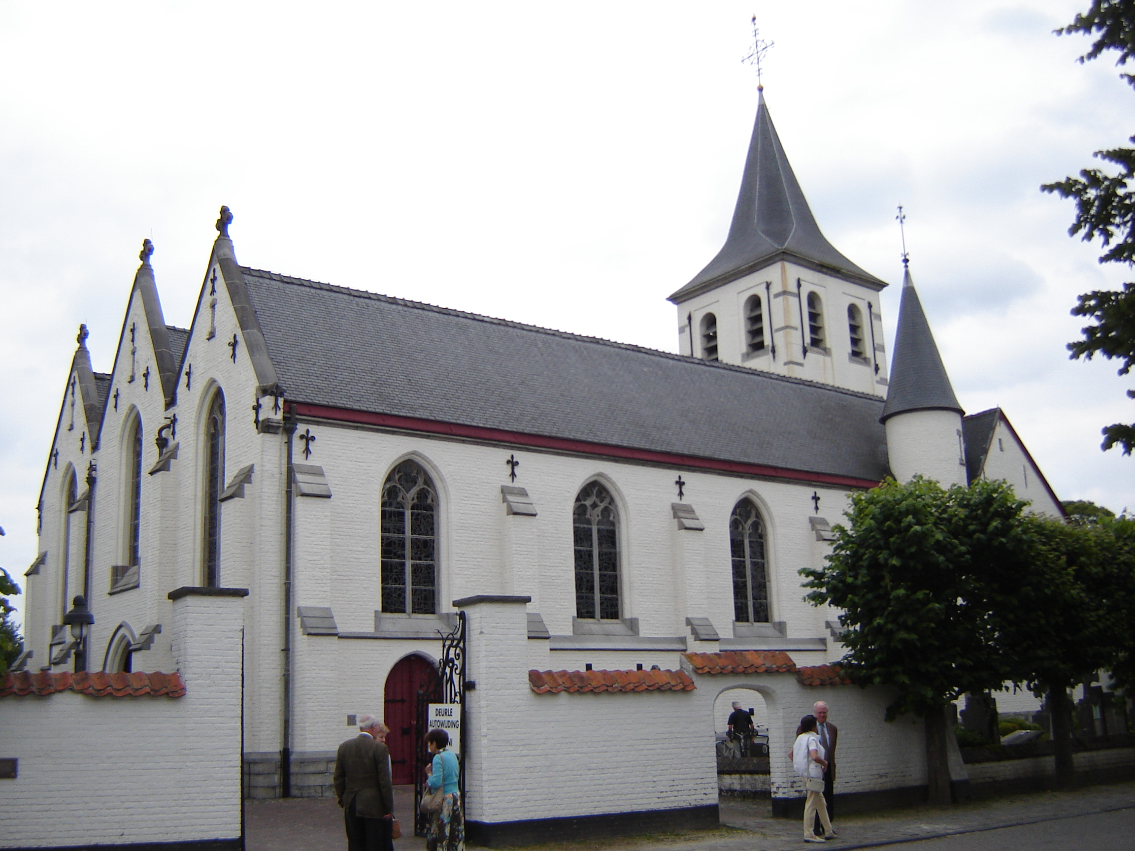 Church of Saint Martin in Sint-Martens-Latem. Sint-Martens-Latem, East Flanders, Belgium.